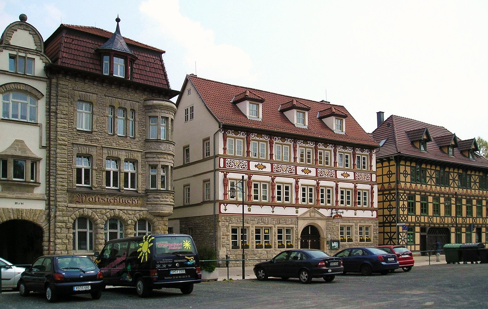 Street line in the historic city of Meiningen.